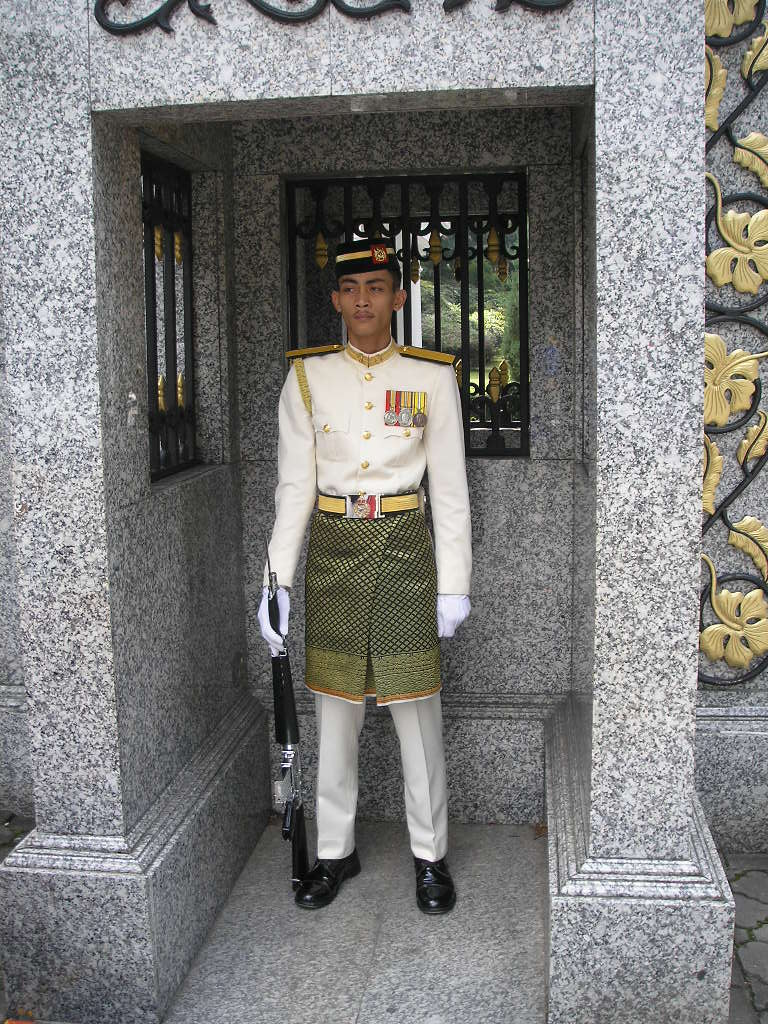 Royal guard of the Malaysian Army outside the main gate of the Istana Negara, Kuala Lumpur.